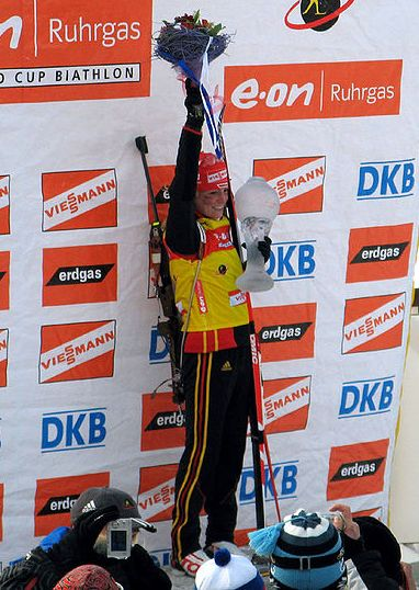 Andrea Henkel with biathlon World cup 2006-2007, after the last competition, Khanty-Mansiysk